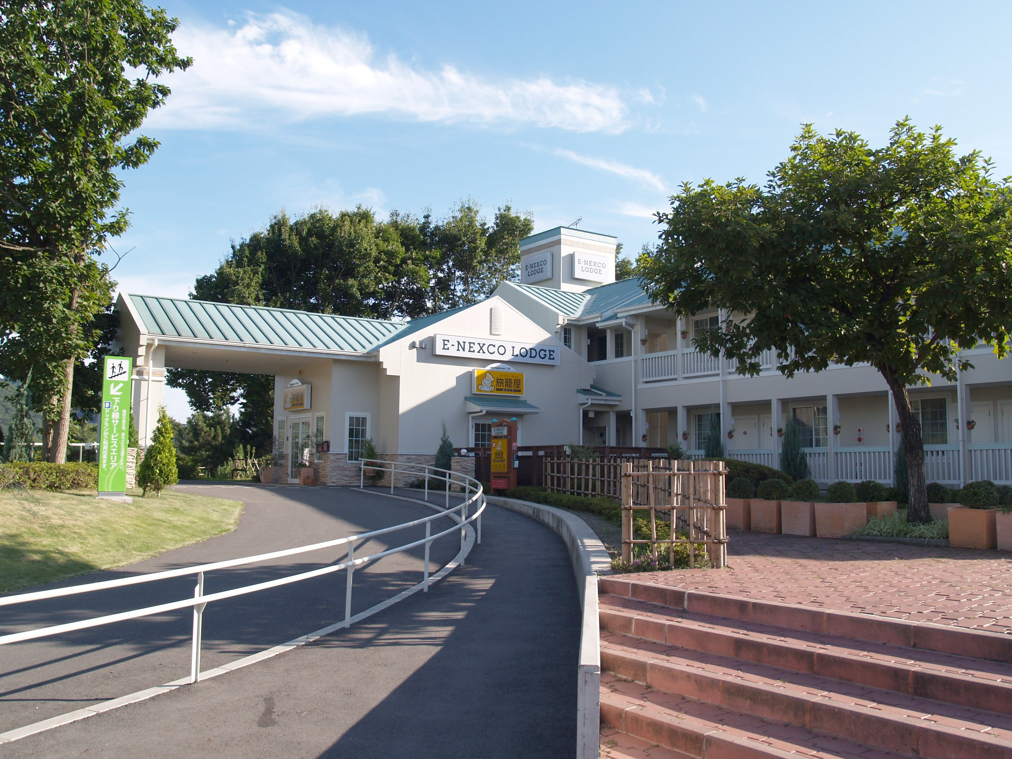 E-Nexco Lodge at Sano Service Area on the Tohoku Expressway in Japan